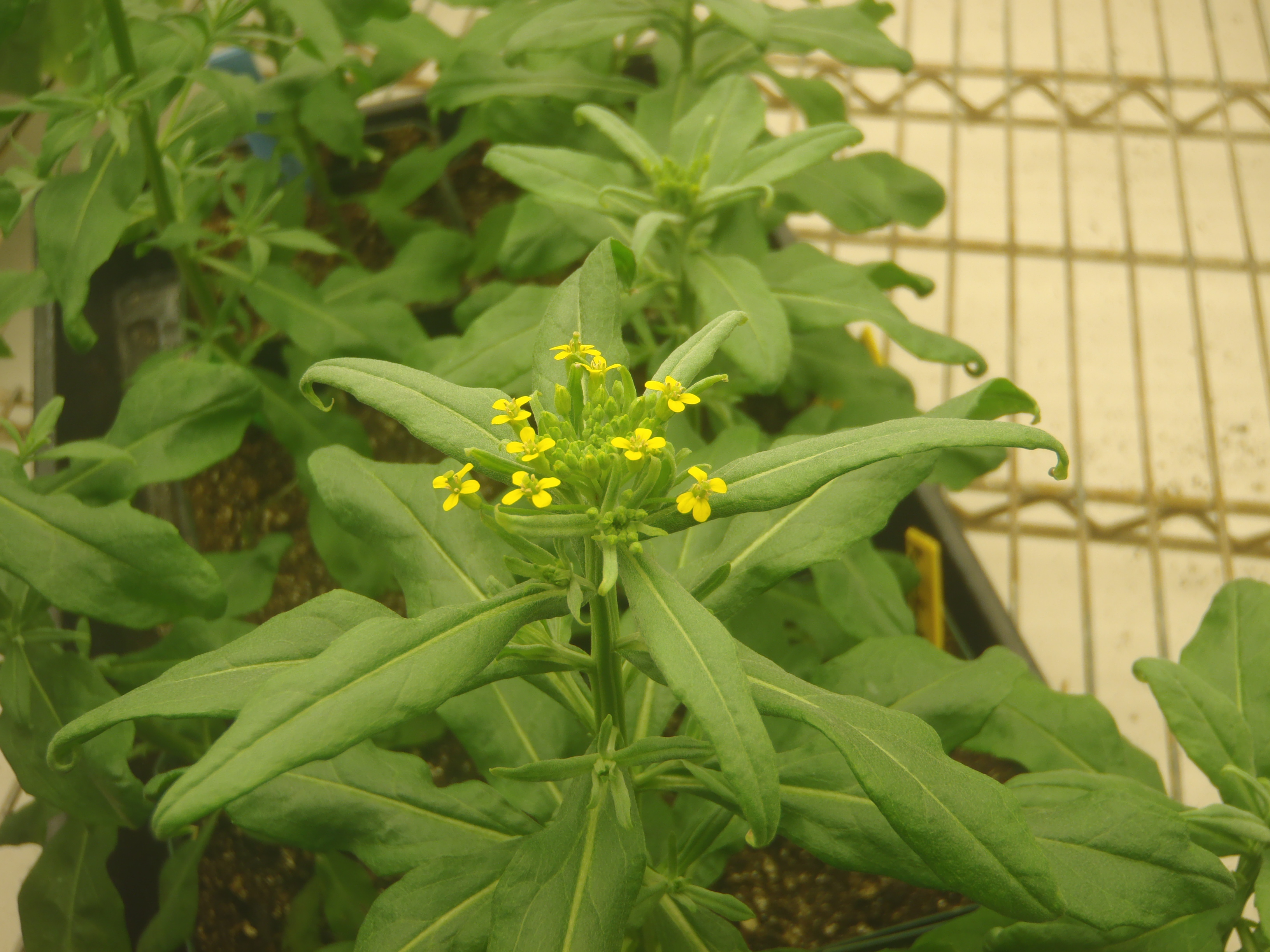 Erysimum cheiranthoides variety Elbtalaue growing under fluorescent lights in a Conviron growth chamber at the Boyce Thompson Institute in Ithaca, New York, USA.